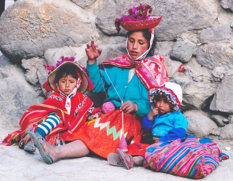 Wool spinning family Peru.